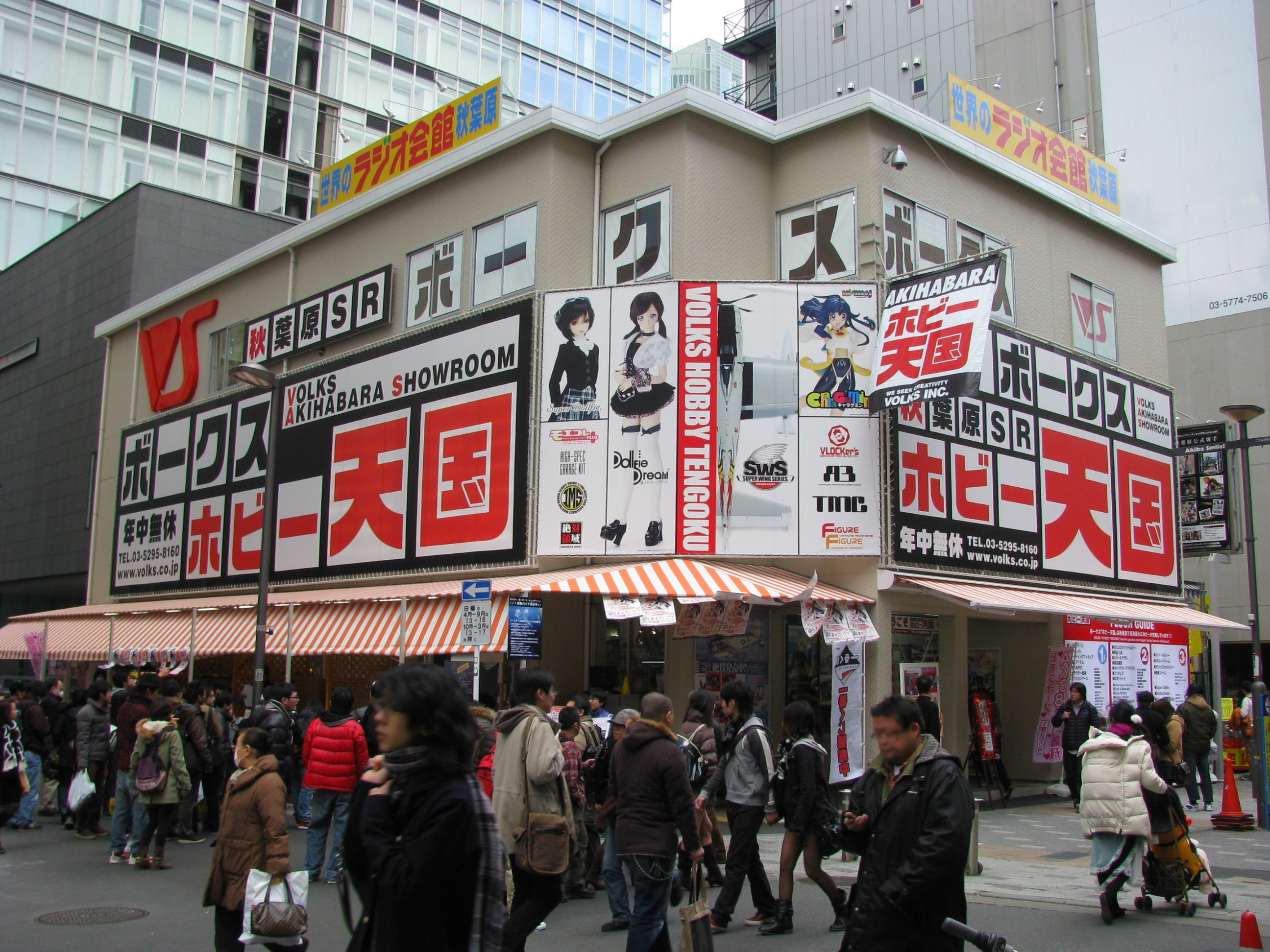 The Volks Akihabara Hobby Tengoku. This location is Akihabara in Chiyoda, Tokyo, Japan.